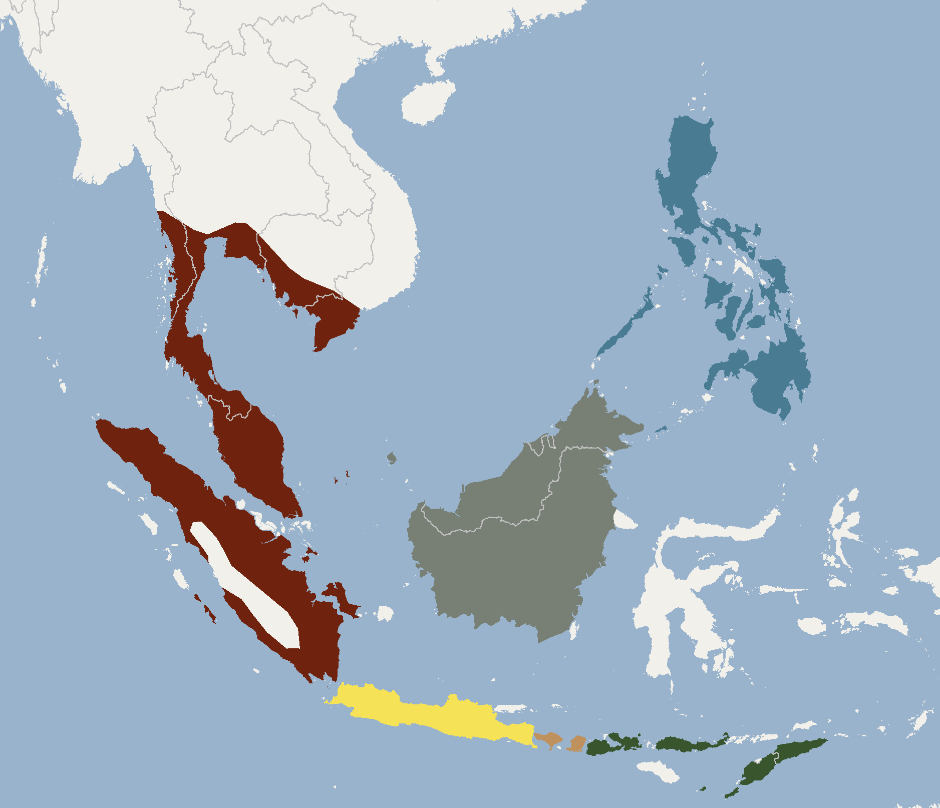 Geographical distribution of Pteropus vampyrus according to IUCNredlist, Francis, 2008, Lekagul & McNeely, 1977